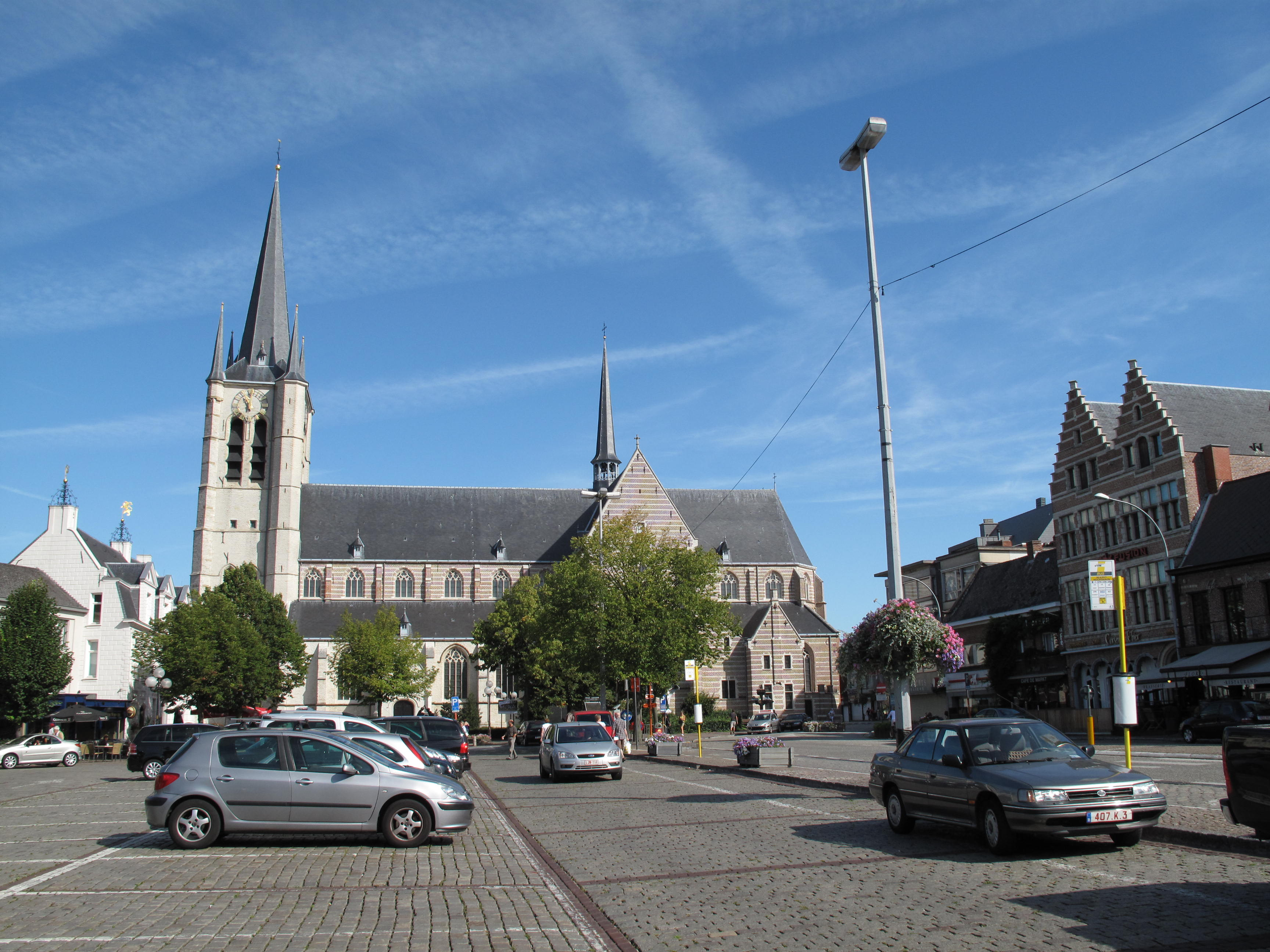 Geel, church